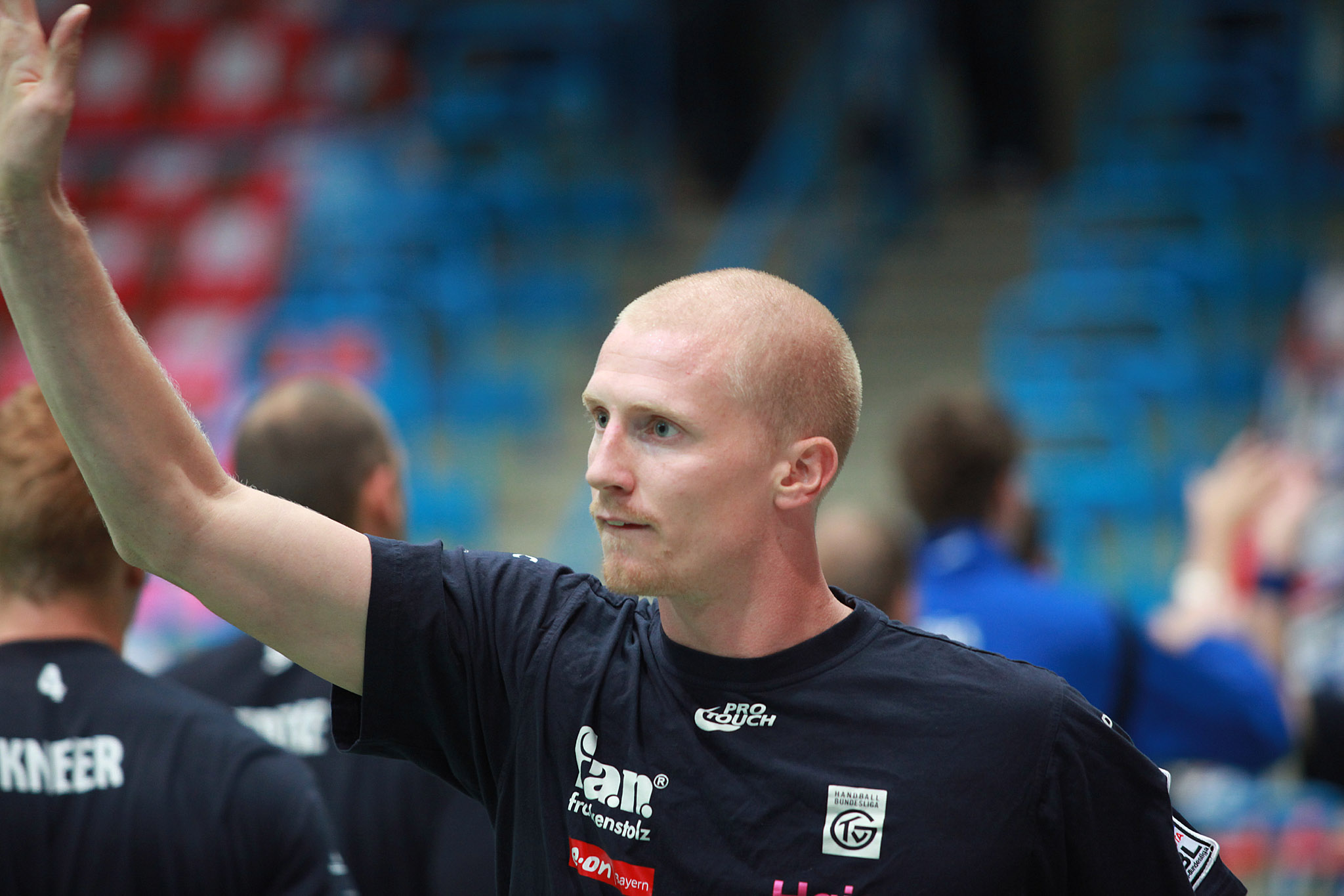 Joakim Larsson, Swedish handball player from TV Großwallstadt, on September 6th, 2009 in the f.a.n. frankenstolz arena of Aschaffenburg, prior the bundesliga match TV Großwallstadt vers. HSV Hamburg (24:27).